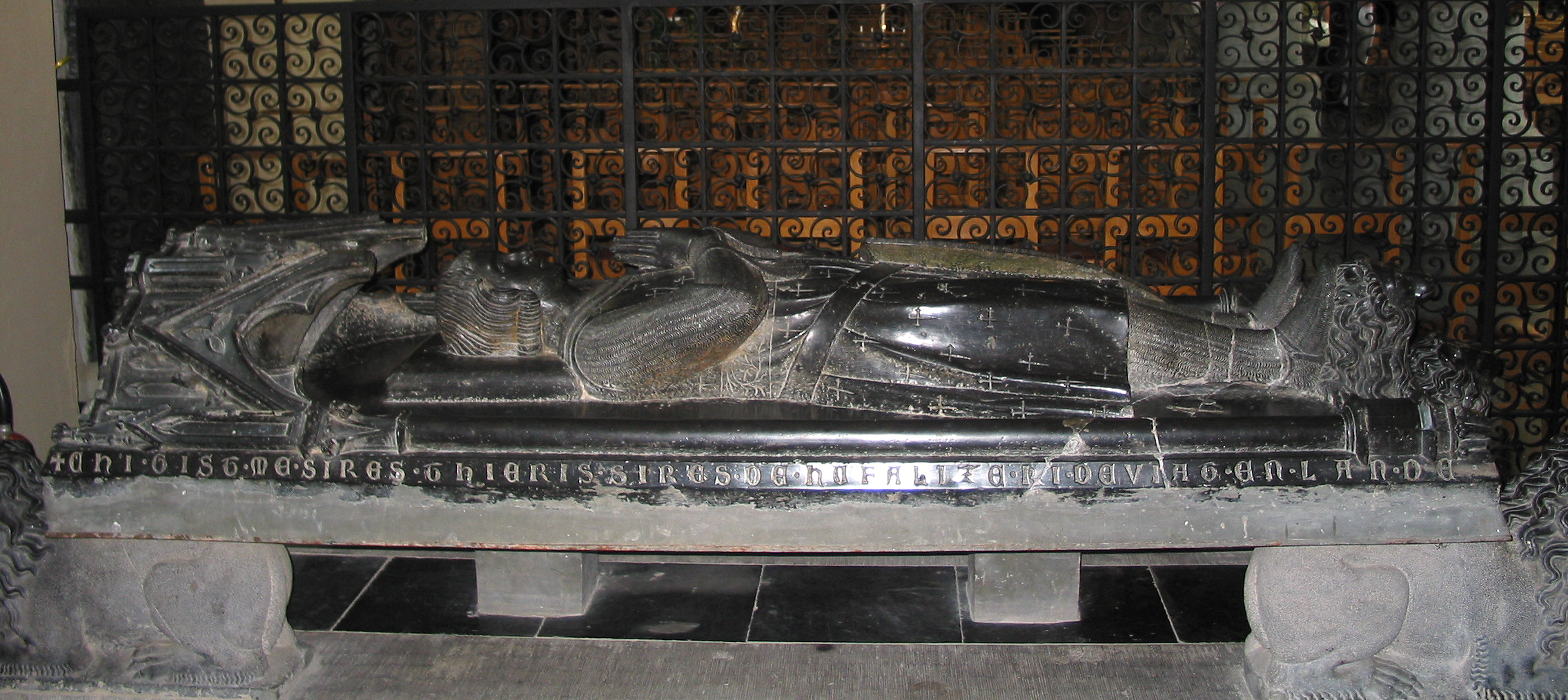 Houffalize (Belgium), Saint Catherine church - Lying of Thierry II de Houffalize in black limestone (13th century).